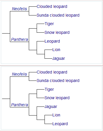 Two cladograms proposed for the genus Panthera. The upper cladogram is based on a 2006 phylogenetic study by Warren E. Johnson (of the National Cancer Institute) and colleagues, and a 2009 study by Lars Werdelin and colleagues. The lower cladogram is based on a 2010 study by Brian W. Davis (of the Texas A&M University) and colleagues and a 2011 study by Ji H. Mazák (of the Shanghai Science and Technology Museum) and colleagues.